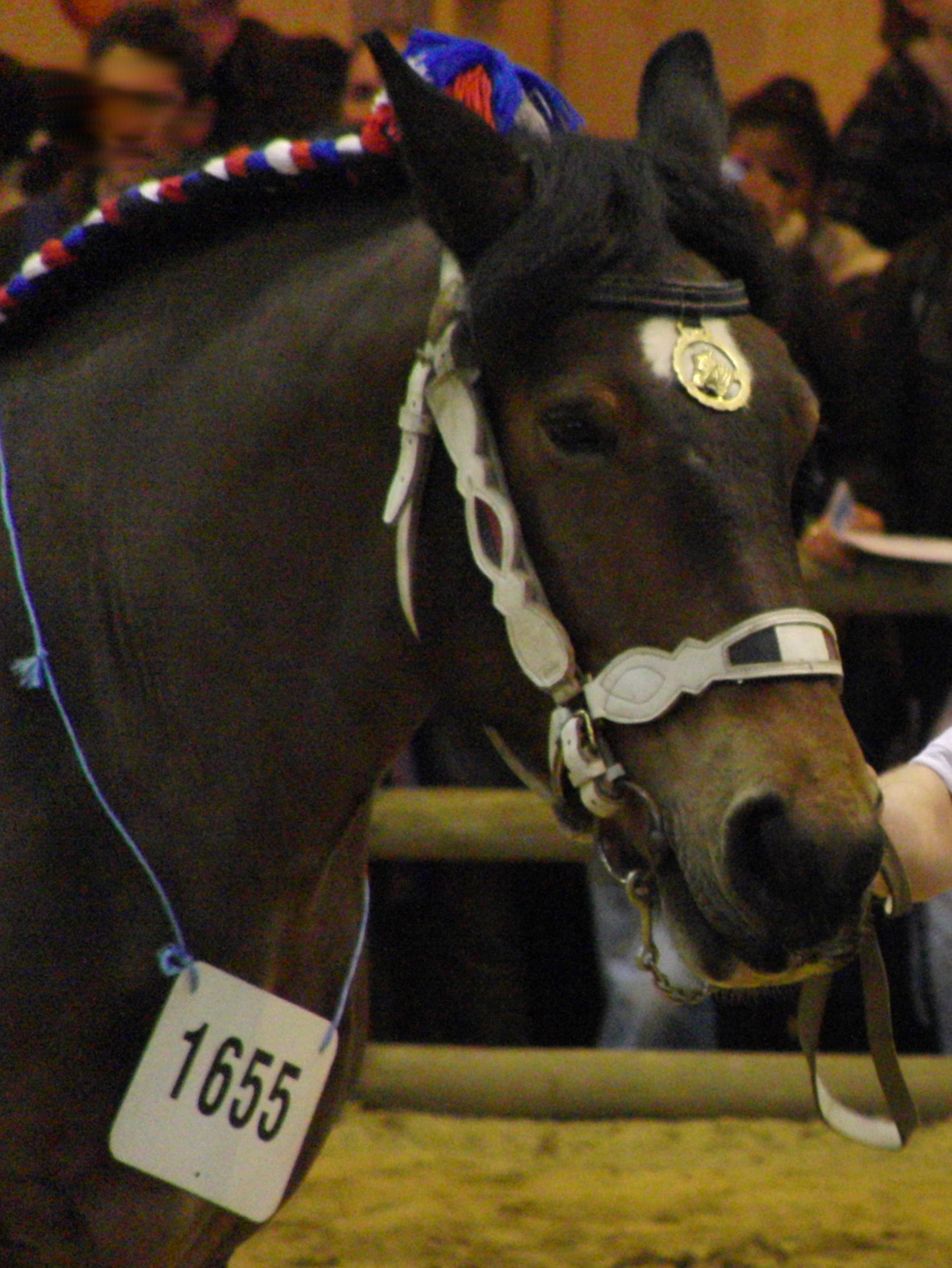 Trait du Nord mare's head during a show - Paris International Agricultural Show 2012, Paris, France